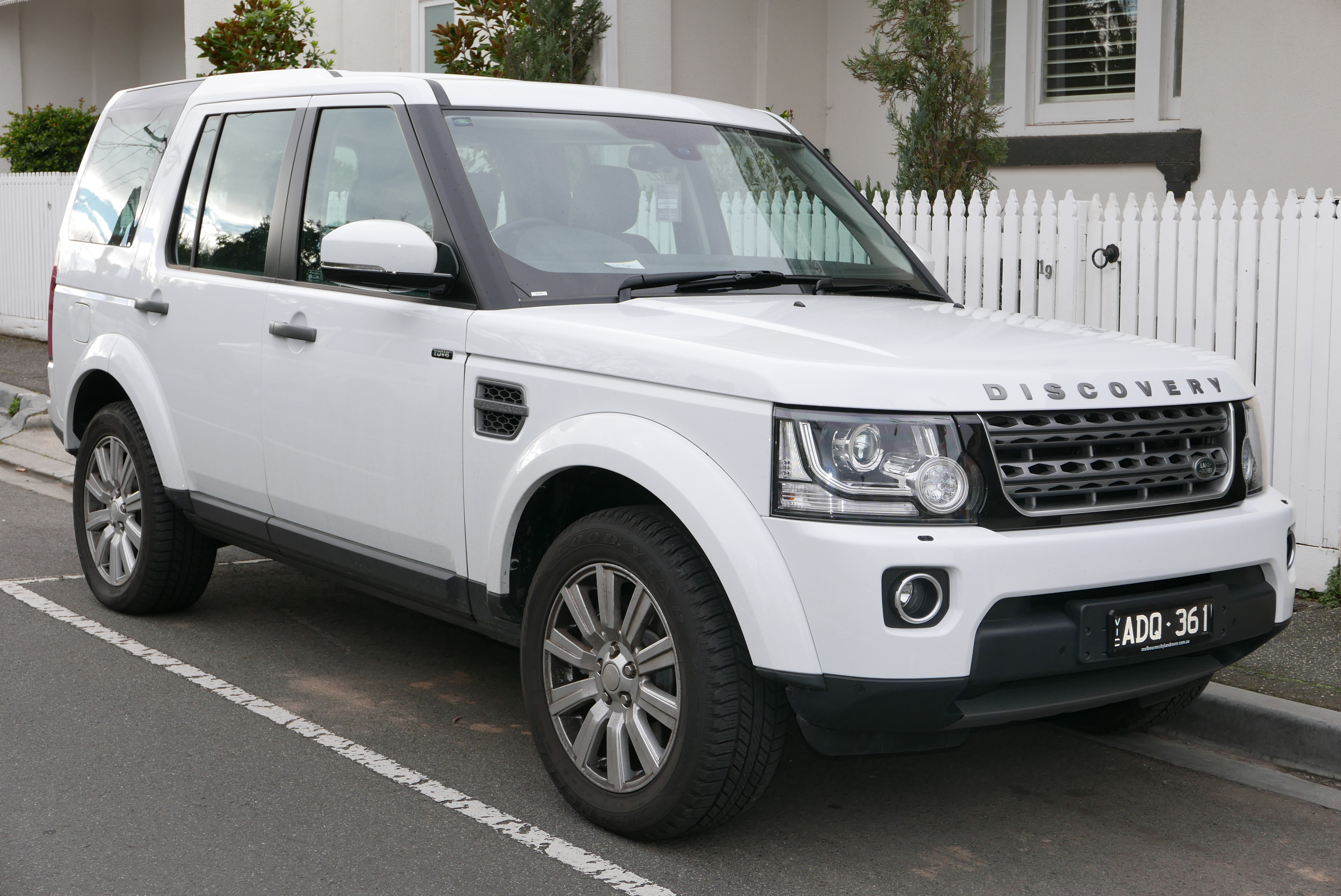 2015 Land Rover Discovery (L319 MY15) TDV6 wagon. Photographed in Hawthorn, Victoria, Australia. Vehicle registration enquiry resultsJurisdictionVictoriaRegistrationADQ361Chassis codeSALLAAAN5FA749936Engine code0873636306DTCompliance date2015-01Year of manufacture2015